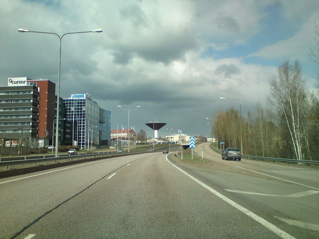 National roads 7 (E18) and 15 in Kotka, Finland